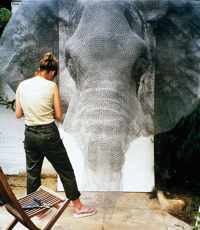 This is a photo of Kendra Haste working on her elephant sculpture in 1999. The completed sculpture is now installed on Waterloo Station, London.